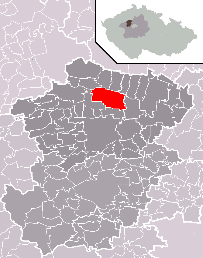 Location of Zlonice market town within Kladno District and administrative area of Slaný as a Municipality with Extended Competence.